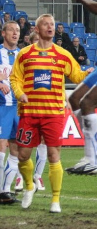 Polish football player Jarosław Lato